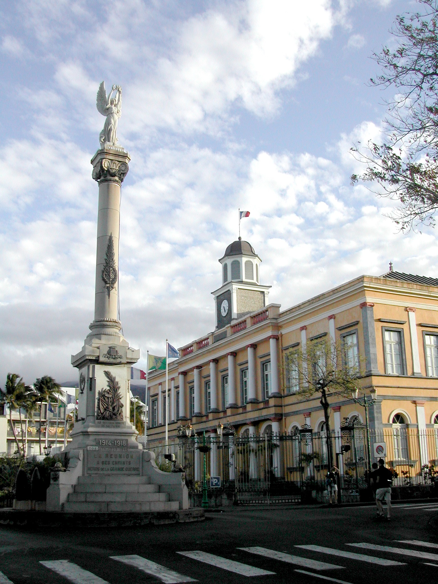 The former town hall of Saint-Denis (Réunion, France) and the Victory column near it.